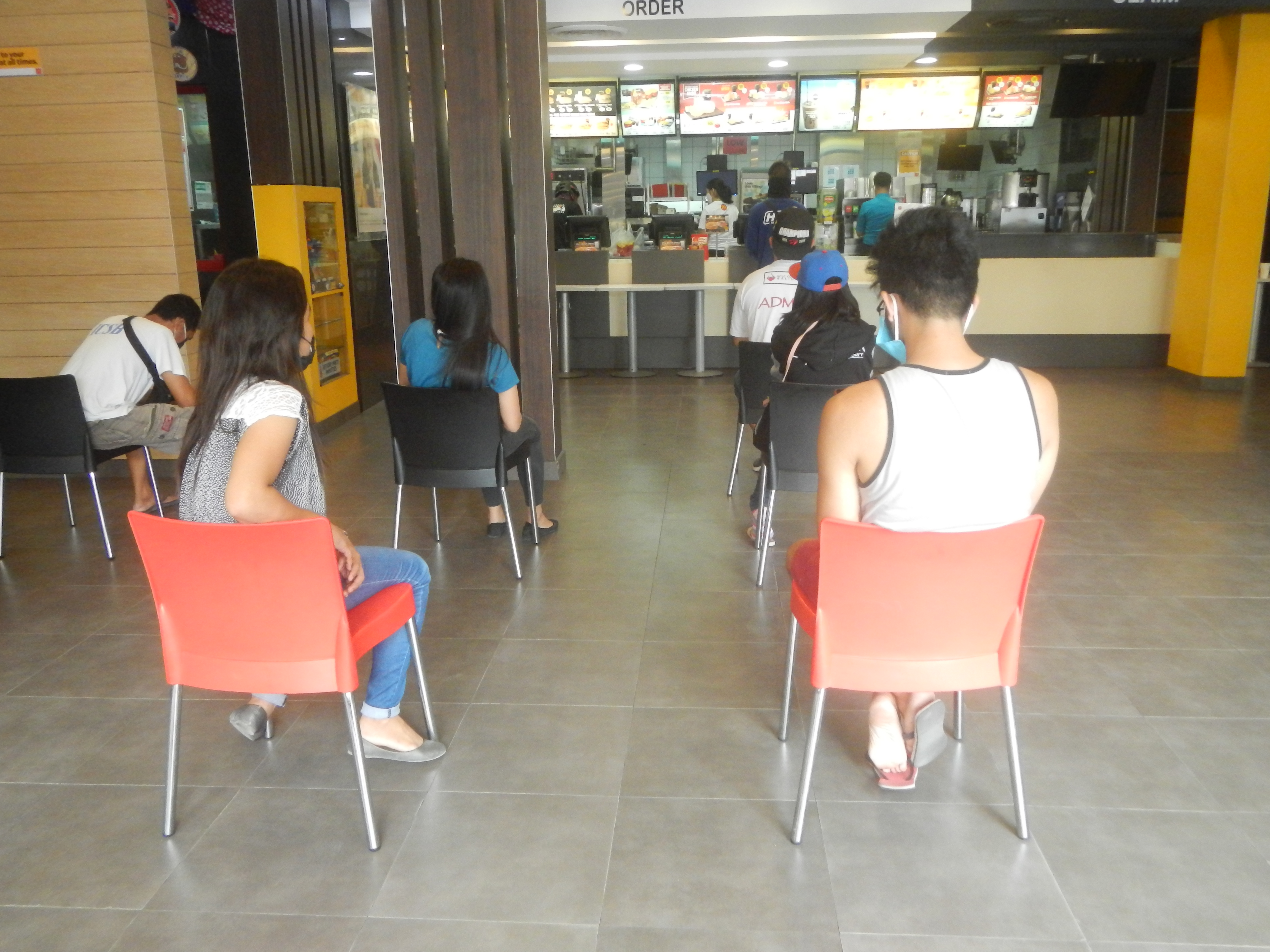 Photos taken during the 2020 coronavirus pandemic in Baliuag, Bulacan Timeline of the 2020 coronavirus pandemic in the Philippines 2020 coronavirus pandemic in the Philippines Bayanihan to Heal as One Act (RA 11469) Bayanihan Act of 2020. Signed on March 24, 2020 7,958 Covid-19 cases in Philippines April 28; 12,942 as of May 19, 2020 Enhanced community quarantine in Luzon Bayanihan to Heal as One Act Republic Act No. 11469 COVID-19 community quarantines in the Philippines Tiers of quarantine Enhanced community quarantine (ECQ) General community quarantine (GCQ) Category:Sitios and puroks of the Philippines Subdivisions of the Philippines Barangay Poblacion 14°57'17"N 120°54'2"E, Bagong Nayon and Pagala, Baliuag, Bulacan, Bulacan province (Note: Judge Florentino Floro, the owner, to repeat, Donor FlorentinoFloro of all these photos hereby donate gratuitously, freely and unconditionally Judge Floro all these photos to and for Wikimedia Commons, exclusively, for public use of the public domain, and again without any condition whatsoever).